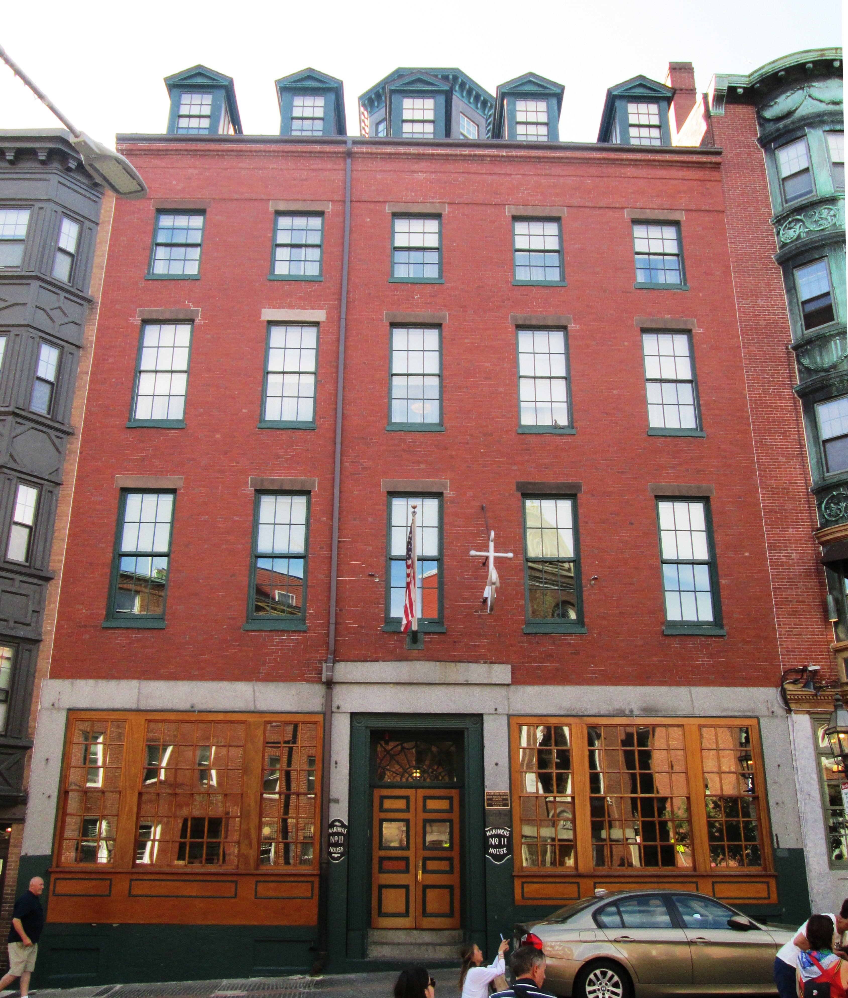 The Mariner's House at 11 North Square in the North End neighborhood of Boston, Massachusetts was built in 1847 by the Boston Port Society as an inexpensive boarding house for sailors, operated by the Boston Seaman's Aid Society. The Greek Revival-style building was added to the National Register of Historic Places in 1999. In that same year, the house was rededicated "to the service of seafarers" by the Boston Port and Seaman's Aid Society; the two organizations merged in 1867.